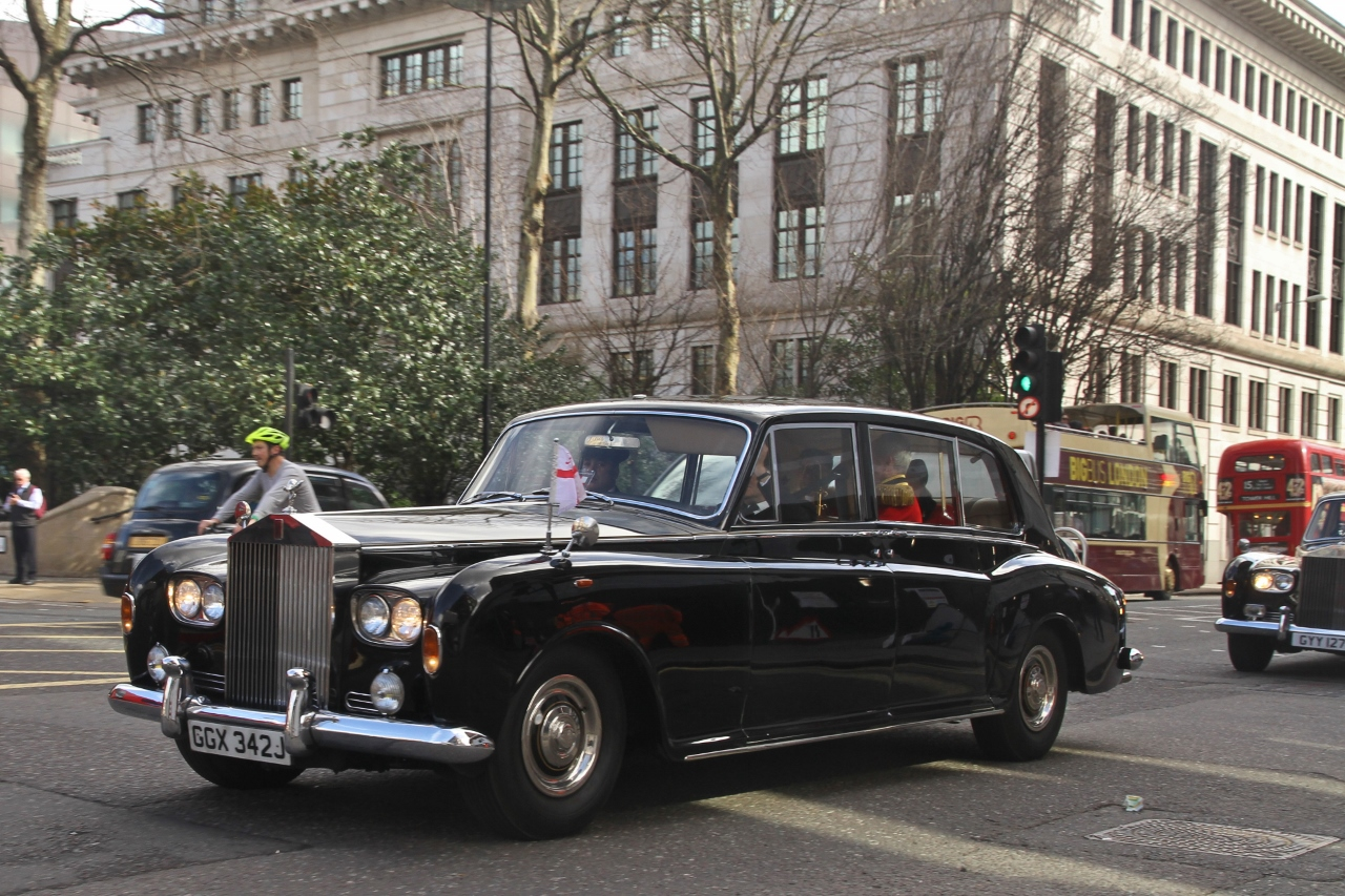 1969 Rolls-Royce Phantom VI limousine of one of the Sheriffs of the City of London in Cannon Street, London EC4. Until 1971 this car was registered LM 0 and was the Lord Mayor's limousine.